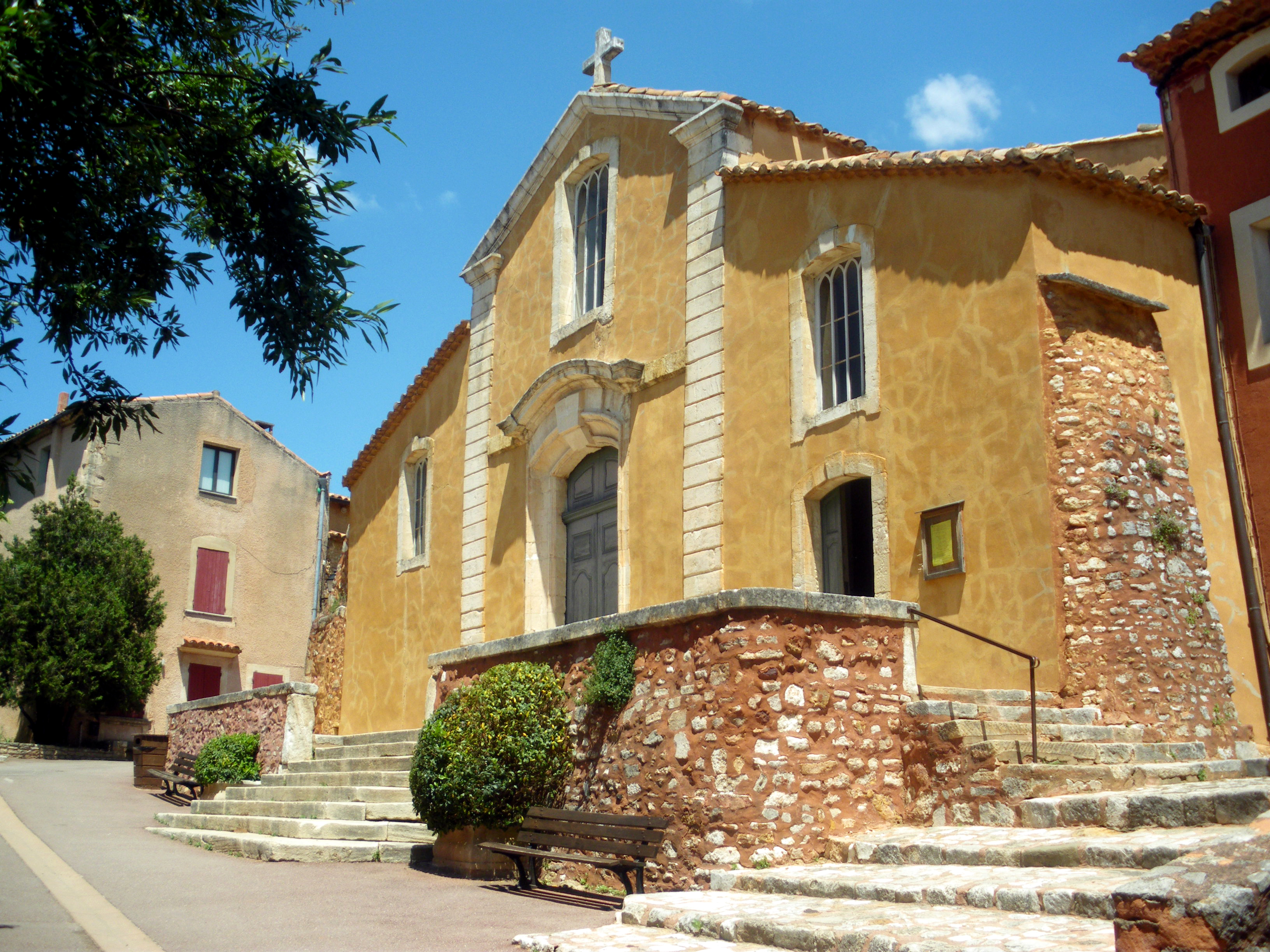 Saint Michel church in Roussillon, Vaucluse